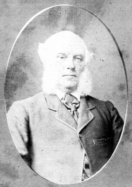 John Valentine Smith, the local militia leader, who persuaded the Government to build a stockade in Masterton.